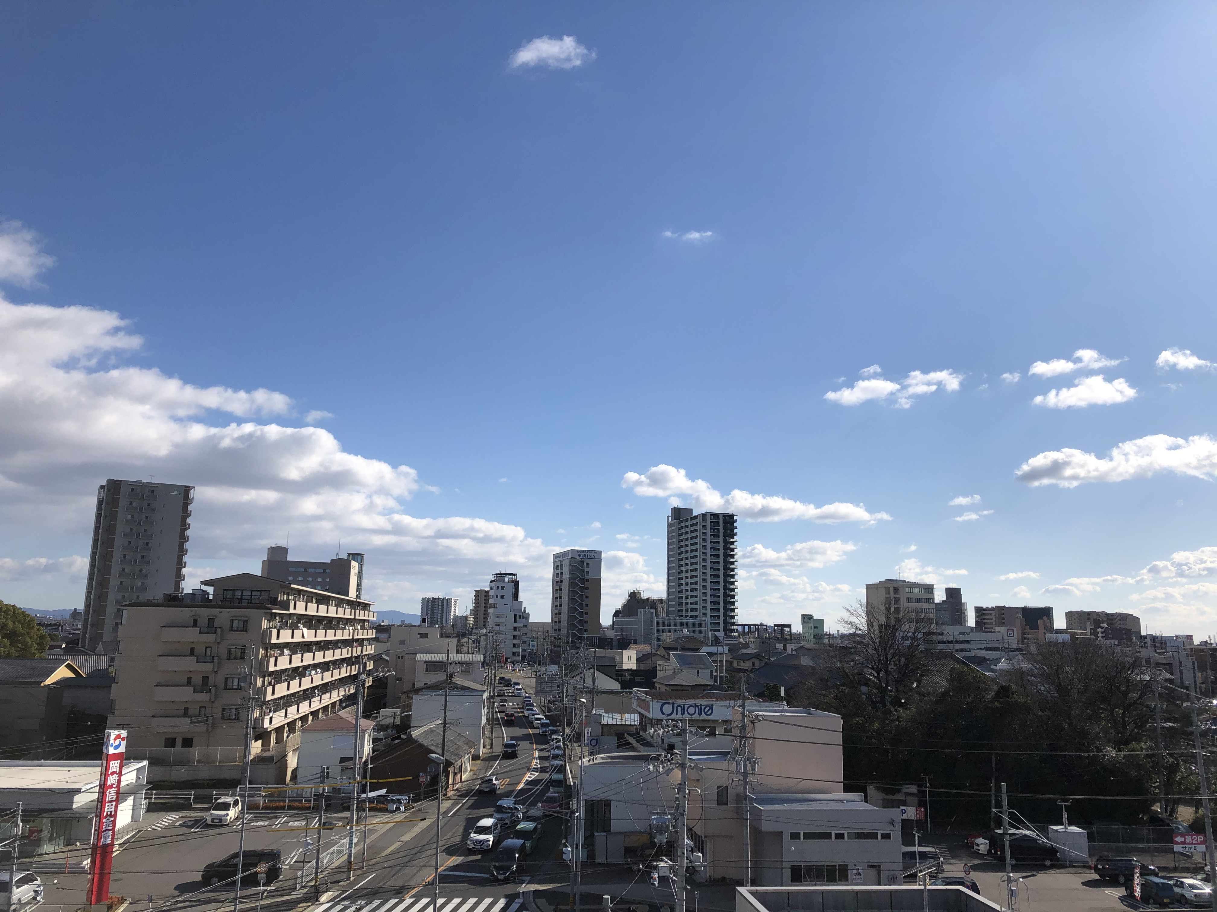 Skyline of Chiryu City